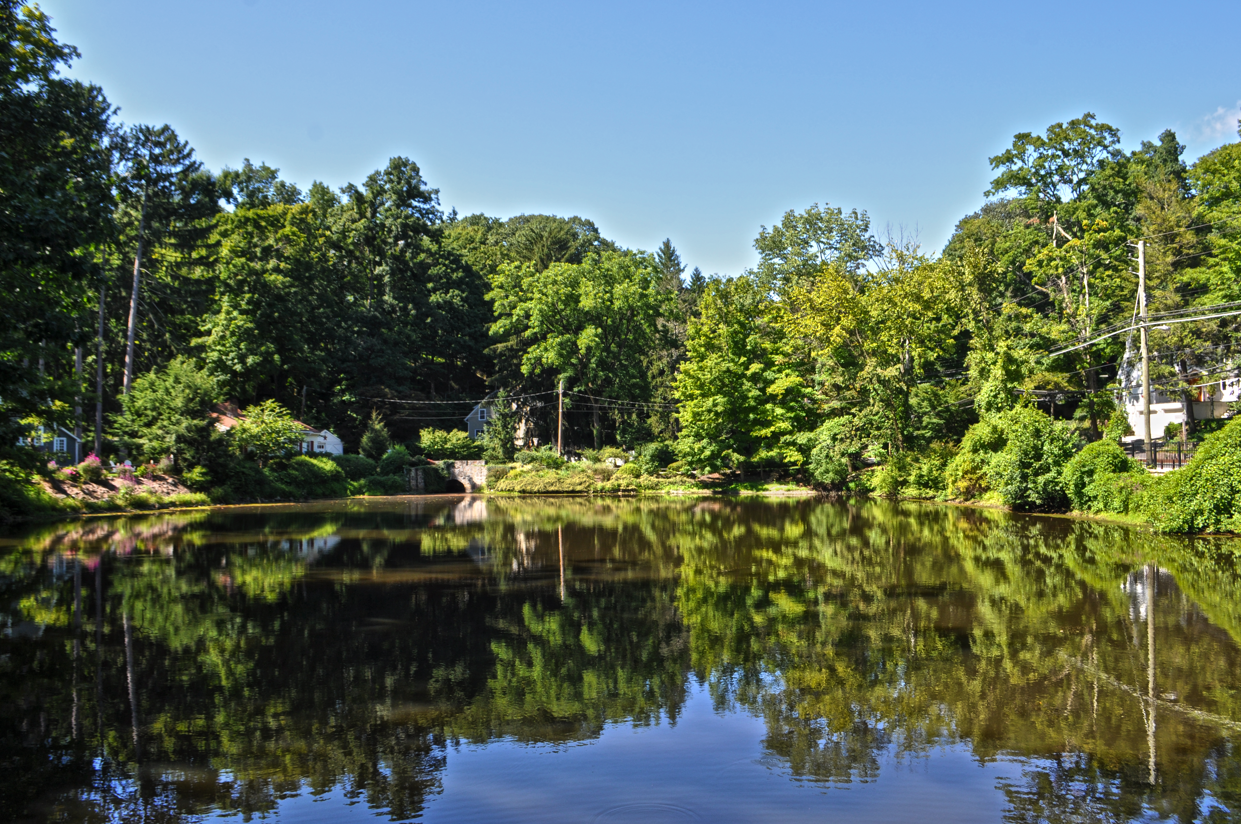 The Duck Pond in Chappaqua, taken August 14, 2013.